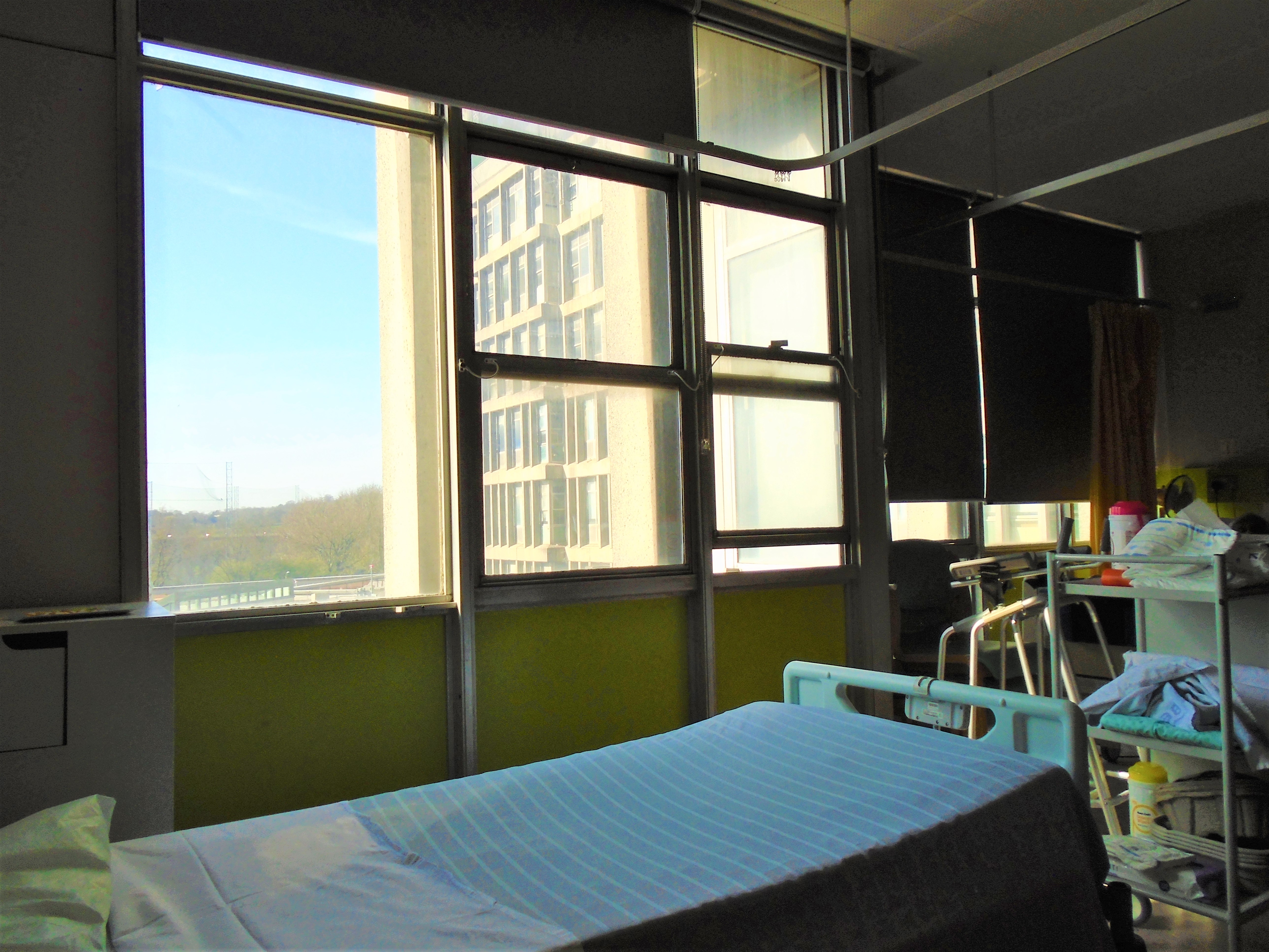 The window next to an empty bed in bay B of the Evelyn trauma Ward nside Norhwick Park Hospital, Harrow, Greater London